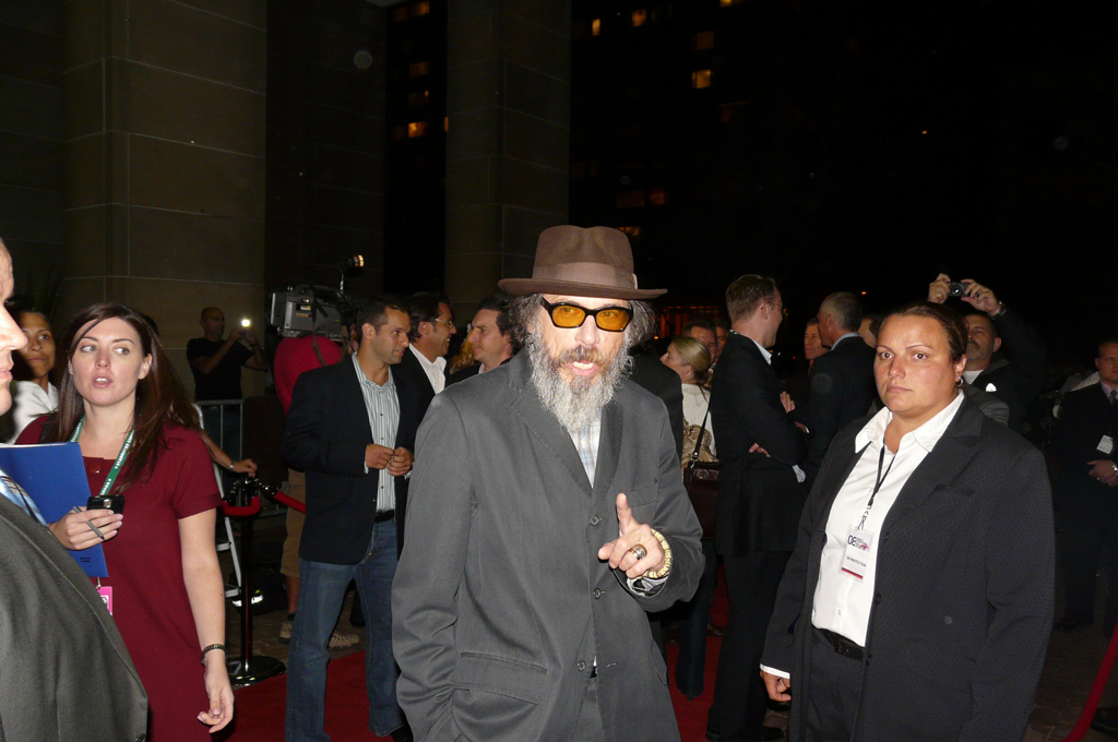 Borat Director and Seinfeld Writer Larry Charles talks with the Fans at Ryerson University Theater outside of the Tiff '08 Premiere of His new documentary, Religulous Check out even more great Photos and Videos at